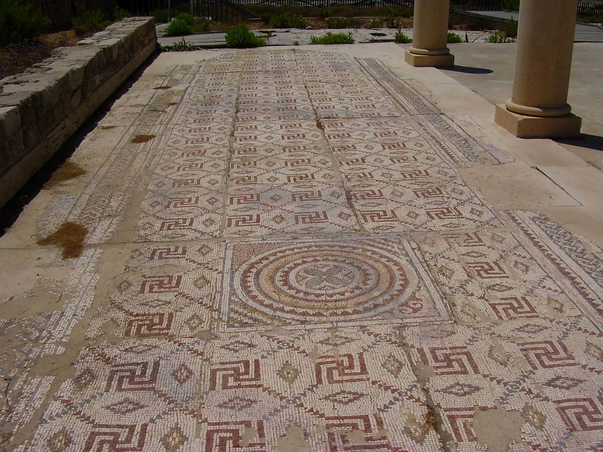 Swastika patterns in the ancient Byzantine mosaic floor, at the Byzantine church ruins in Shavei- Zion, Israel. Of the Byzantine Palestine era (circa 360s CE to 636 CE).